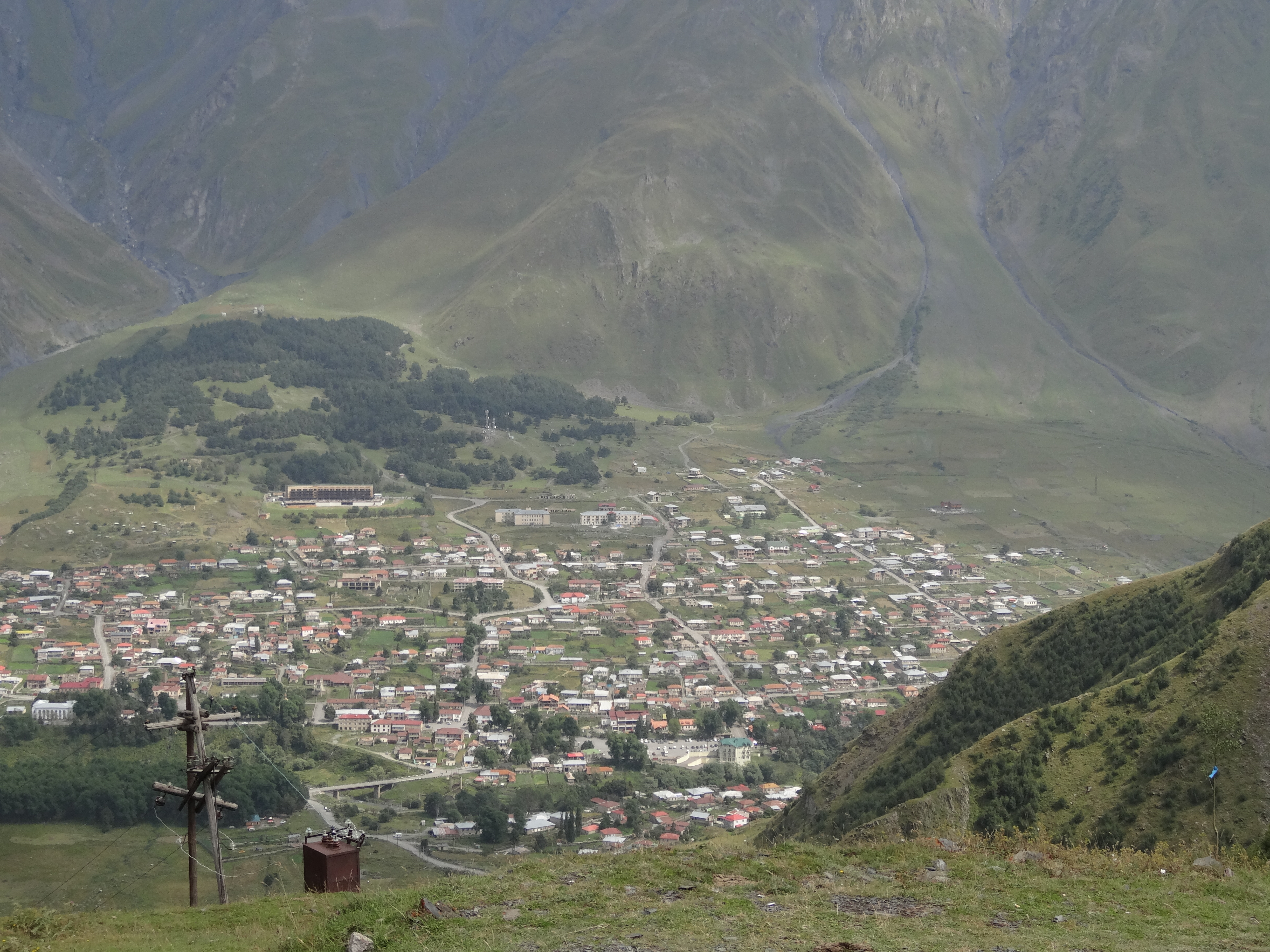 Gergeti from Church - August 2013